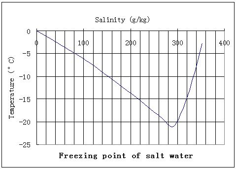 A graph created using Excel and data originally found on Wikipedia at the article for "sodium chloride". Plot of freezing point temperature (in degrees C) vs. concentration of NaCl in aqueous solution of near-freezing water (salinity, g/kg).